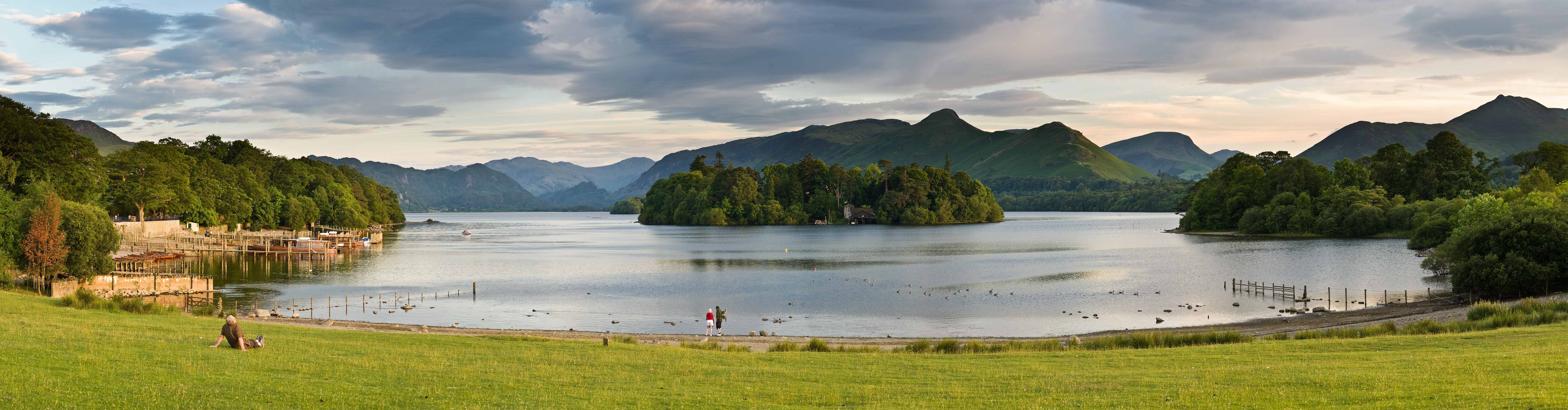 A wide 12 segment panoramic view of Derwent Water as viewed from the northern shore of Keswick.